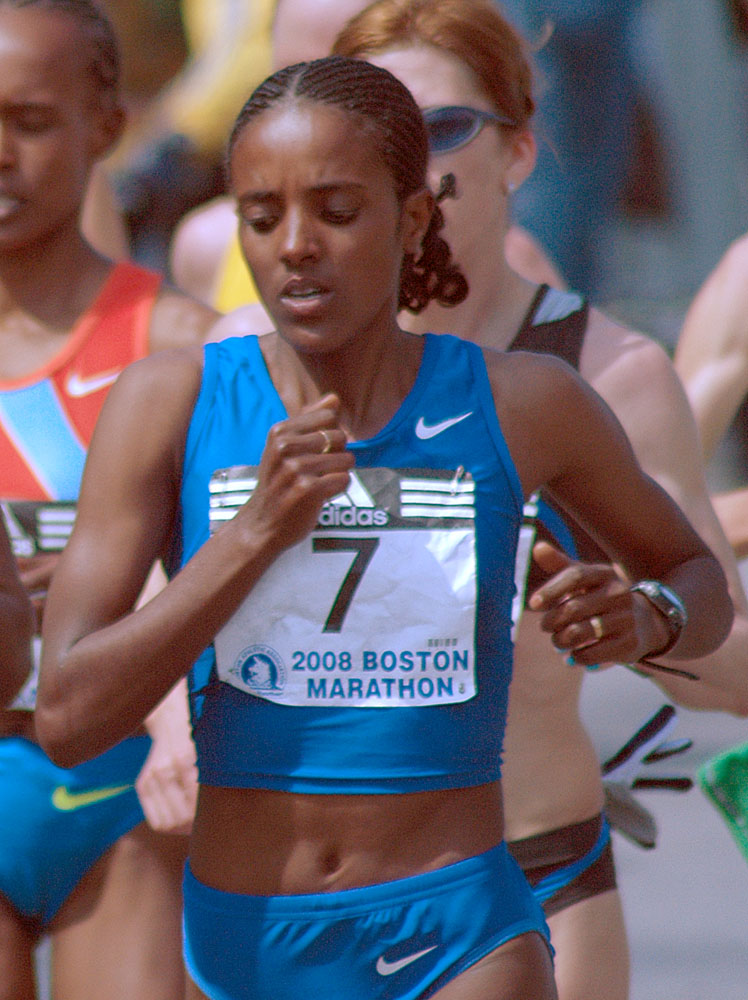 Picture of Dire Tune running in the Boston Marathon 2008 at Wellesley Square